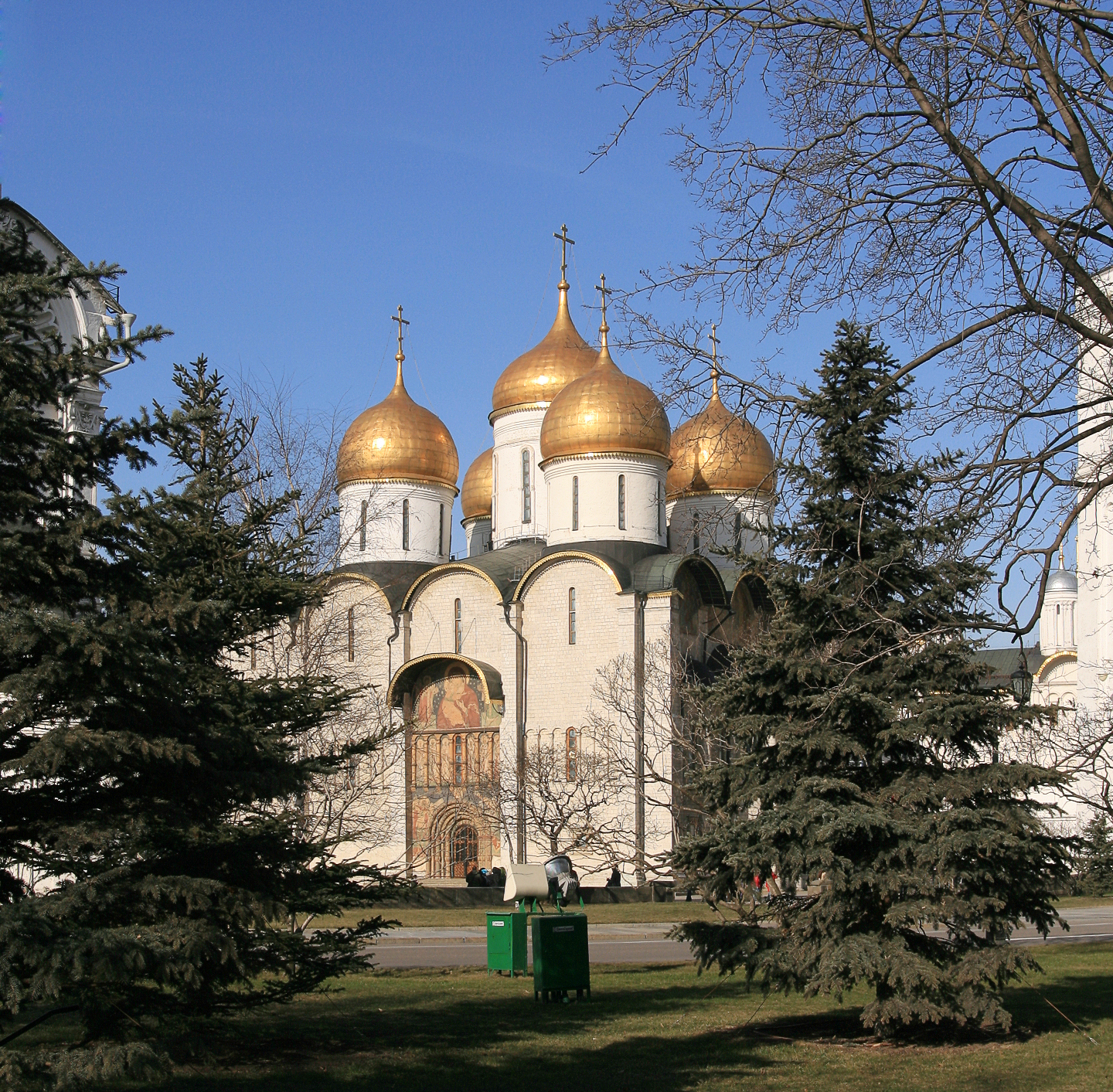 Moscow Kremlin, Dormition Cathedral